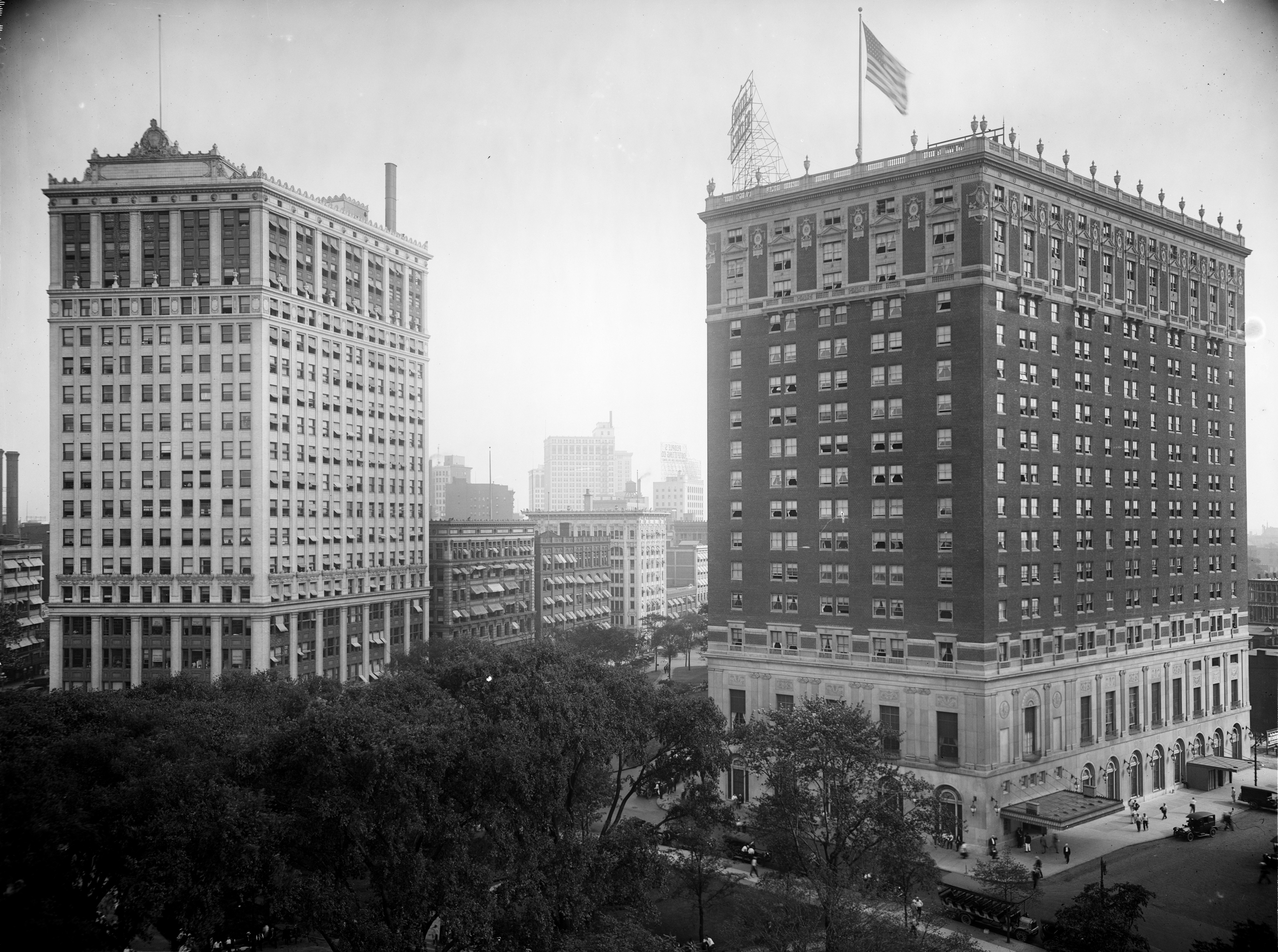 Whitney Bldg. and Statler Hotel, Detroit, Mich